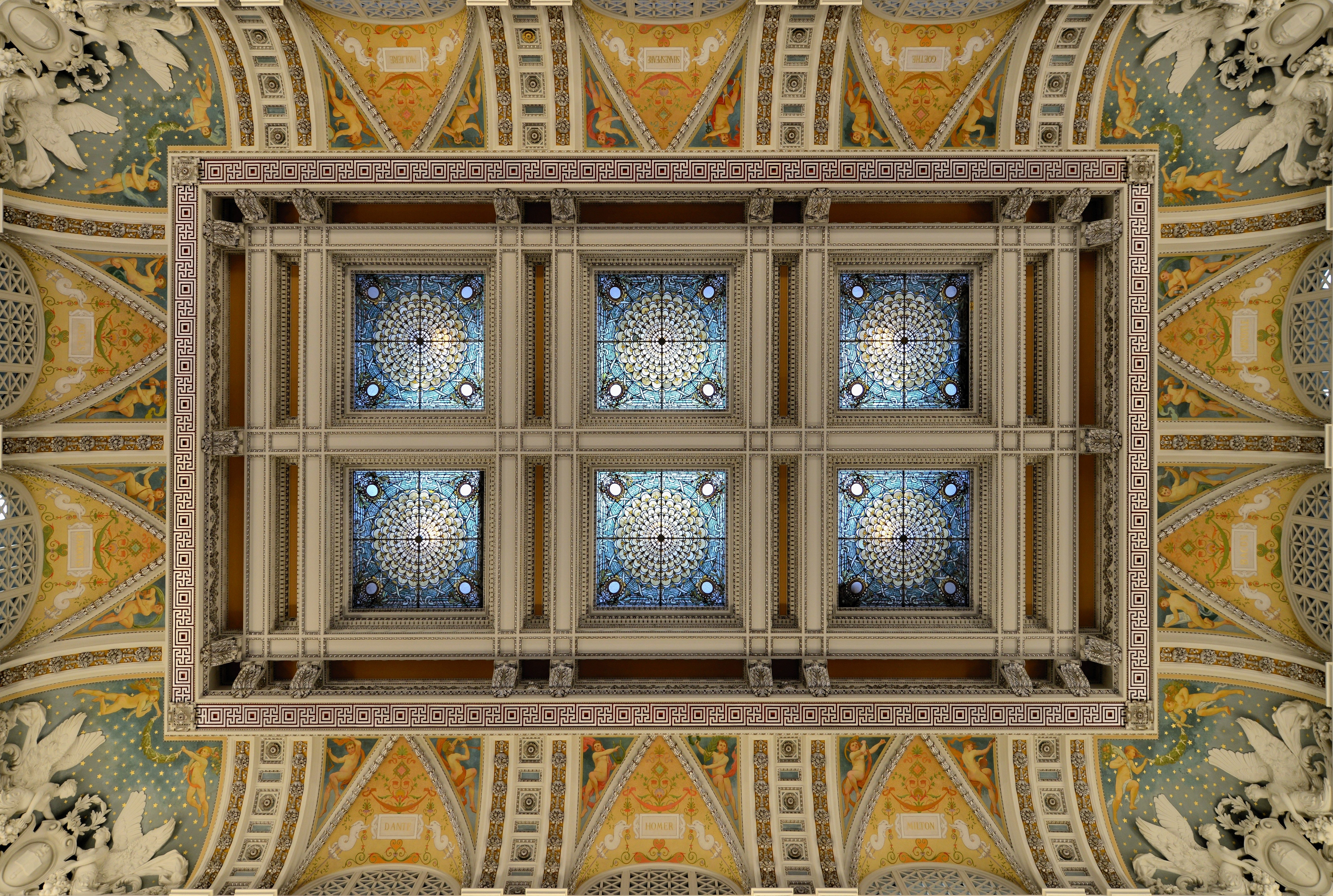 Glassed window in the ceiling of the Great Hall. Library of Congress, Washington DC